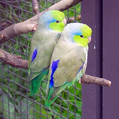 Pacific Parrotlets (also known as Lesson's Parrotlet and Celestial Parrotlet) at Wilhelma Zoo, Stuttgart, Germany.